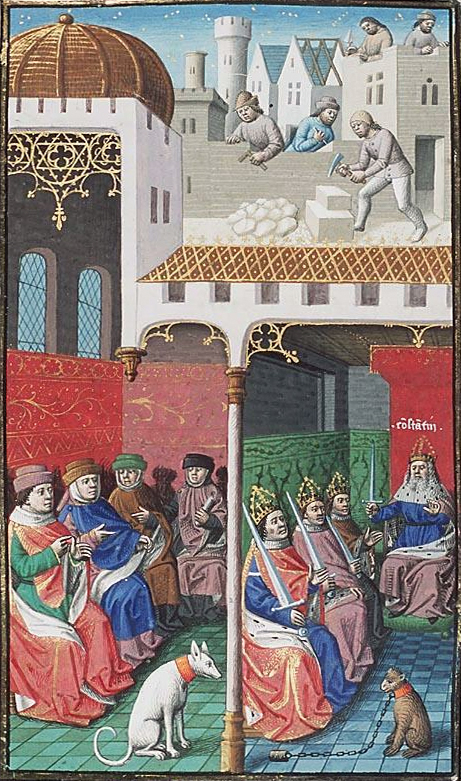 Constantine with his three sons among whom he divided his empire; senators; the building of Constantinople (background) Contents: Augustine, La Cité de Dieu (Vol. I). Translation from the Latin by Raoul de Presles Place of origin, date: Paris, Maïtre François (illuminator); c. 1475; 1478-1480 Material: Vellum, ff. 467, 440x300 (270x185) mm, 46 lines, littera hybrida, Binding: 18th-century brown leather (c. 1769) Decoration: 11 two-column miniatures (257/204x190/177 mm); 277 column miniatures (c. 120x80 mm); 11 illustrations in the margin (coats of arms); decorated initials with border decoration Provenance: made for Jacques d'Armagnac, duke of Nemours (1433-1477) and after his capture continued for Philippe de Commines (1447-1511), lord of Argenton (coats of arms in margin and on edge). Purchased in 1751 at the sale of J.-A. Crozat de Tugny (1696-1751) at Thiboust, Paris,by L.-J. Gaignat of Paris; purchased in 1769 at the Gaignat sale at G.F. De Bure le Jeune, Paris (cat. 1 Febr., no. 242) by Gerard Meerman (1722-1771) of Rotterdam, later The Hague; by descent to his son Johan Meerman (1753-1815); acquired between 1816 and 1824 by Willem H.J vanWestreenen van Tiellandt (1783-1848) of The Hague; by legacy to the kingdom of the Netherlands Annotation: Vol. II now: Nantes, BM, fr. 8